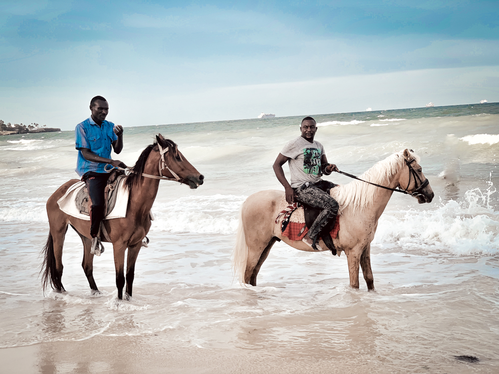 This is an image with the theme "Play" from: Tanzania